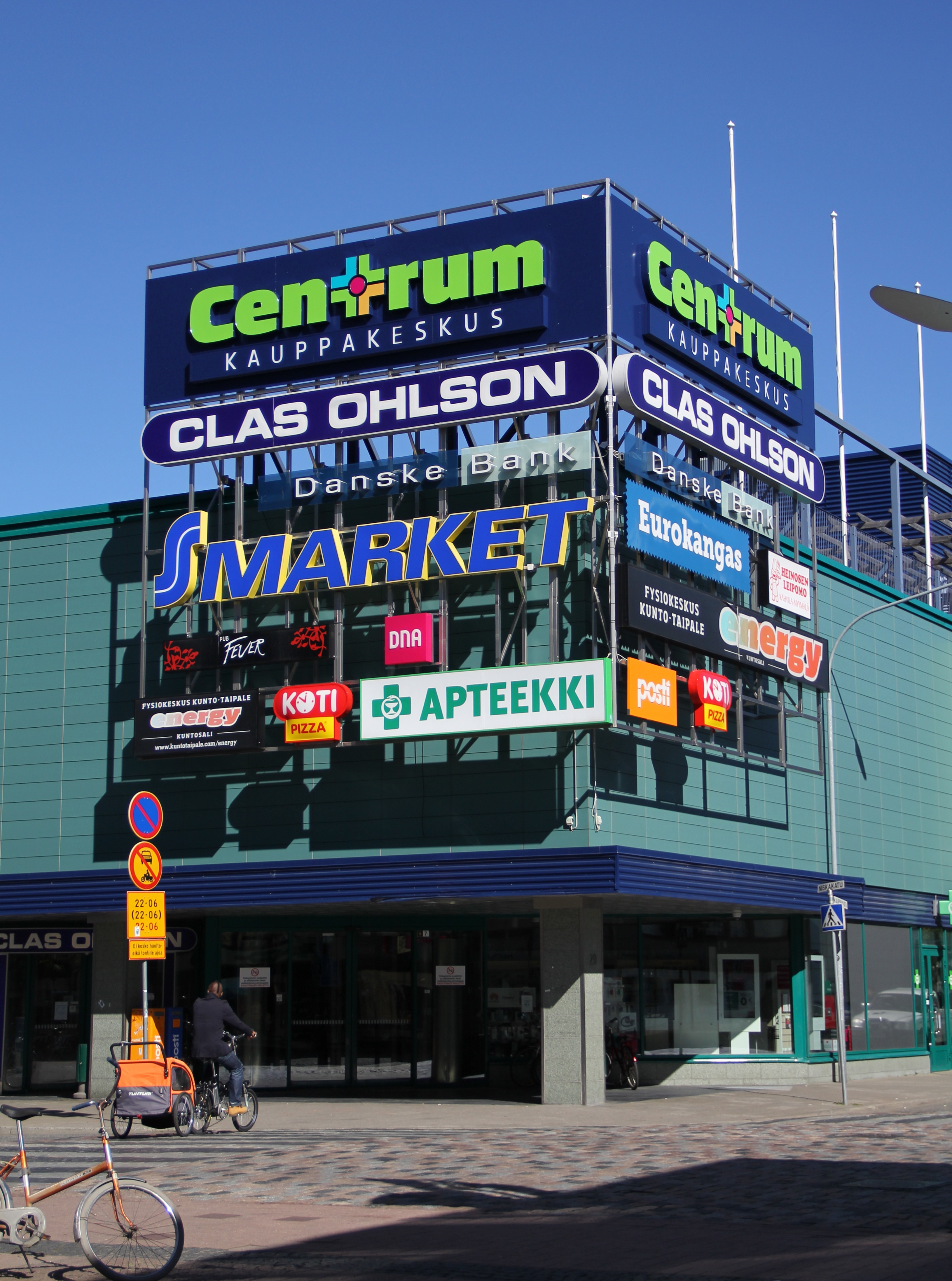 Shopping center Centrum, Joensuu, Finland. - Corner of Kauppakatu and Niskakatu.